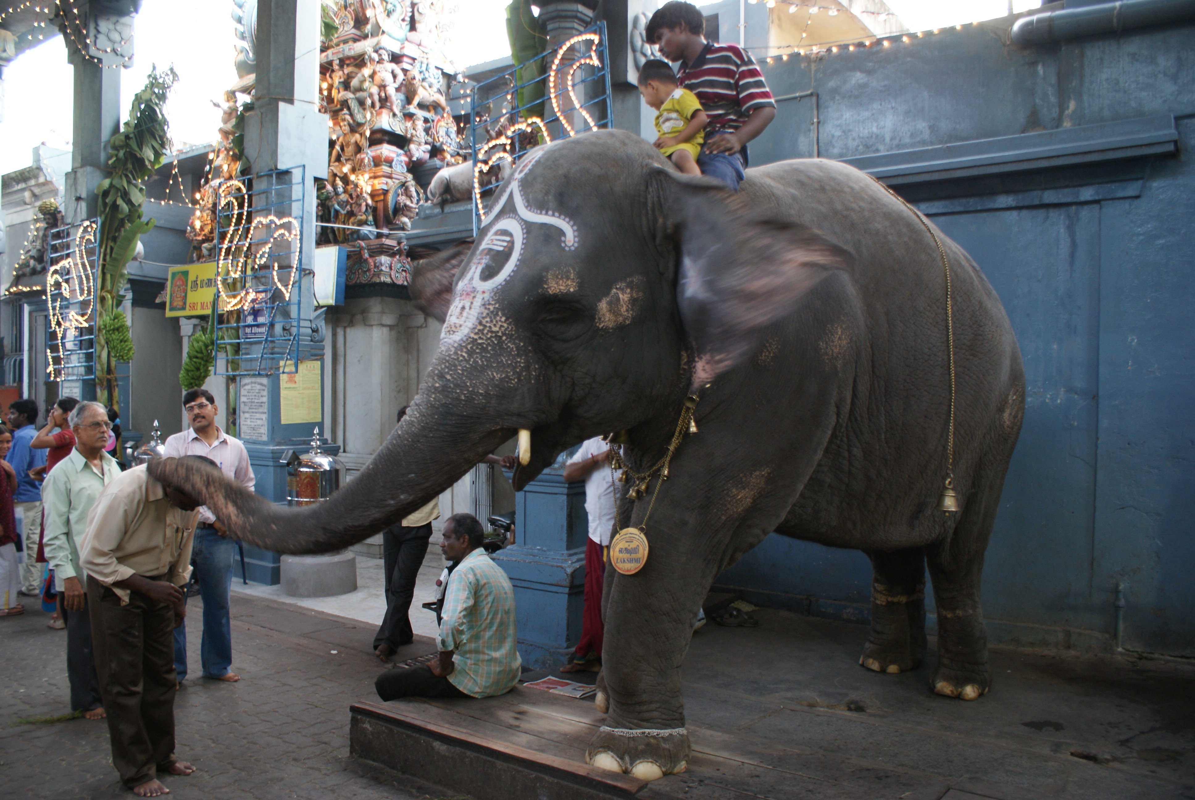 Temple elephant in front of the Manakula Vinayagar Temple in Puducherry (Pondicherry), India